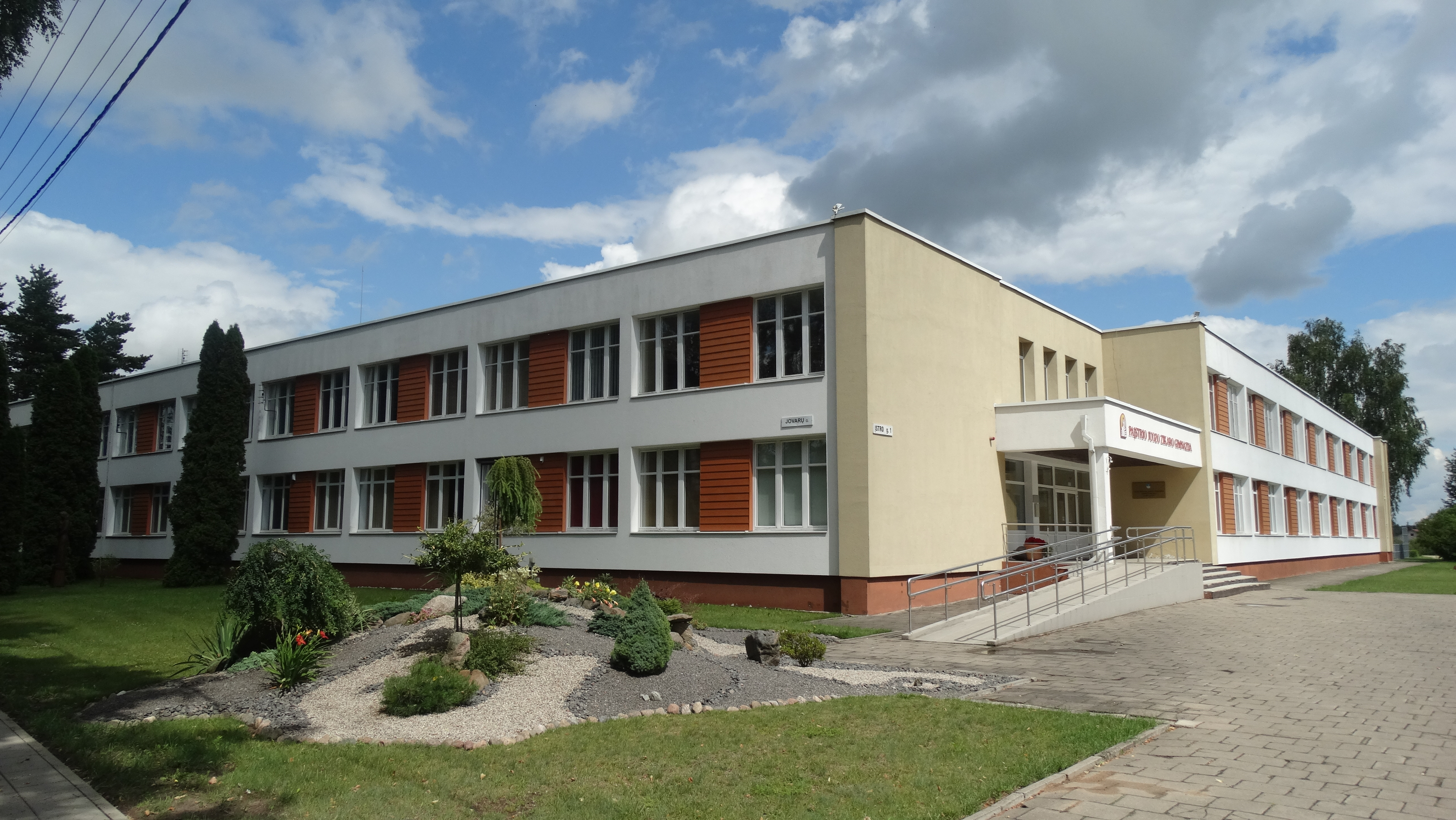 Gymnasium in Paįstrys, Panevėžys District, Lithuania